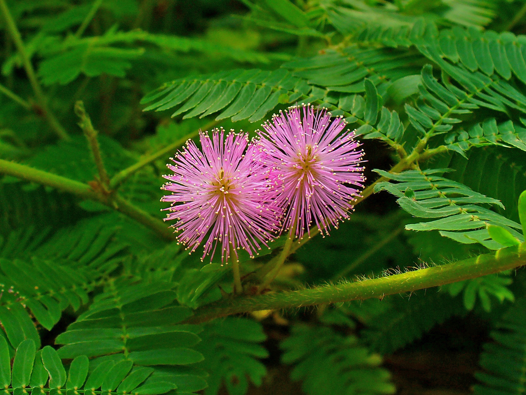 Mimosa pudica, Fabaceae, Sensitive Plant, inflorescences; Botanical Garden KIT, Karlsruhe, Germany.